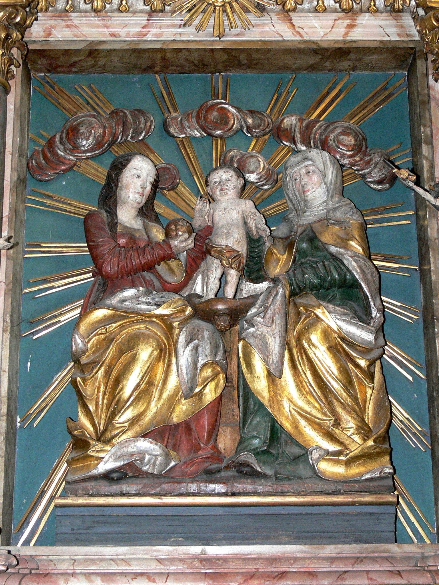 Saint Maximilian church in Bischofshofen ( Salzburg ). Gothic relief of Virgin Mary with Child and Saint Anne, made by Lienhart Astl in the 1520s.